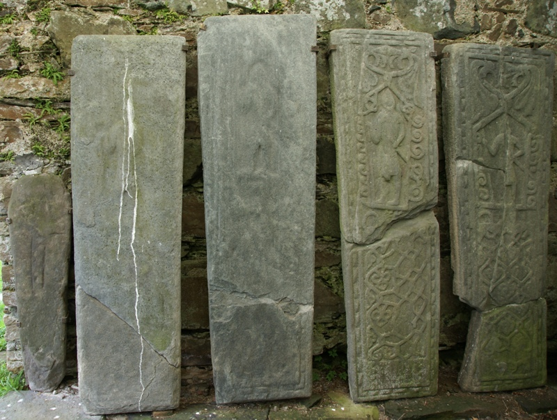 Kirkton Chapel, Craignish, Argyll and Bute, Scotland. A few of the Craignish Sculptured Stones.